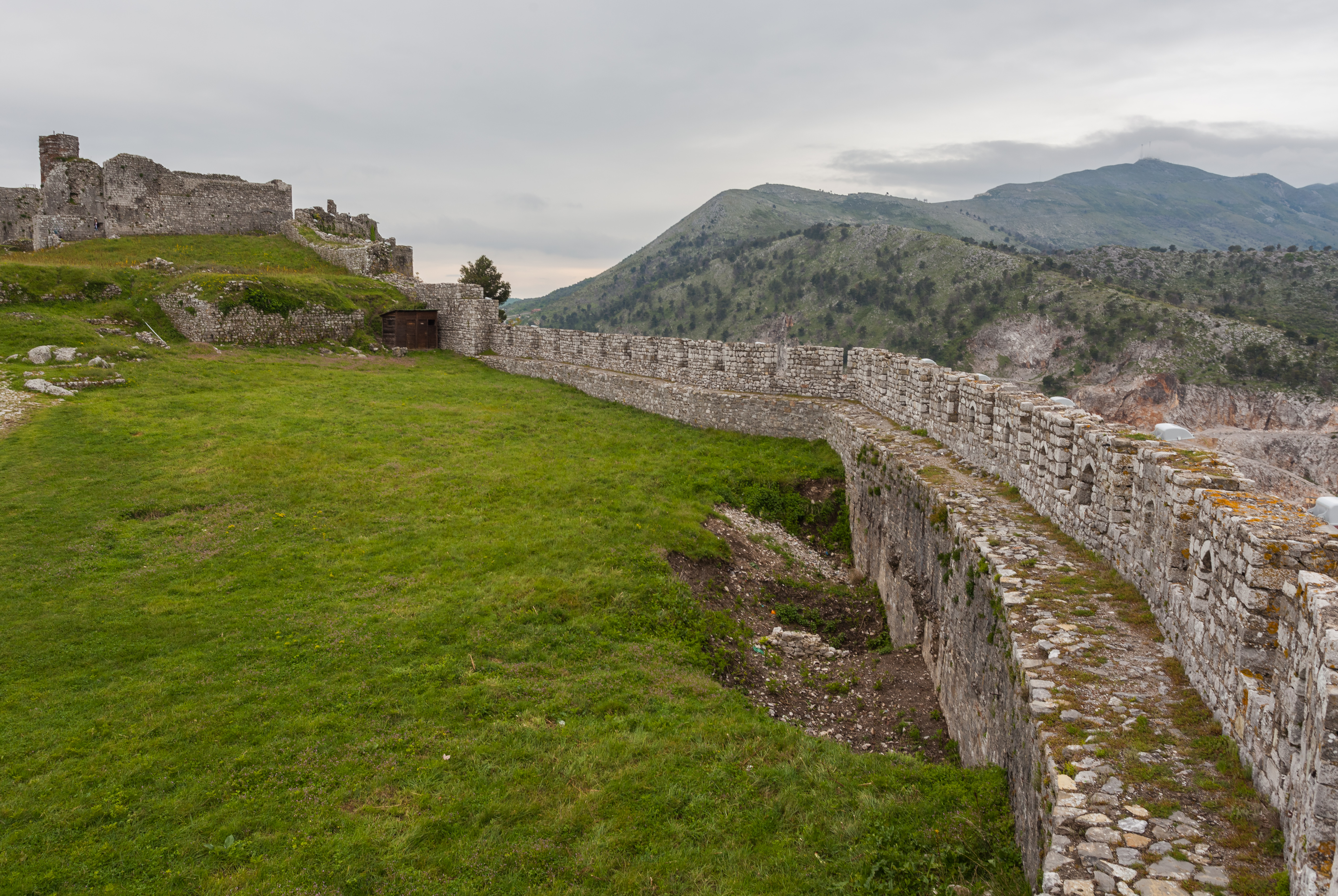 Rozafa Castle, Shkodra, Albania